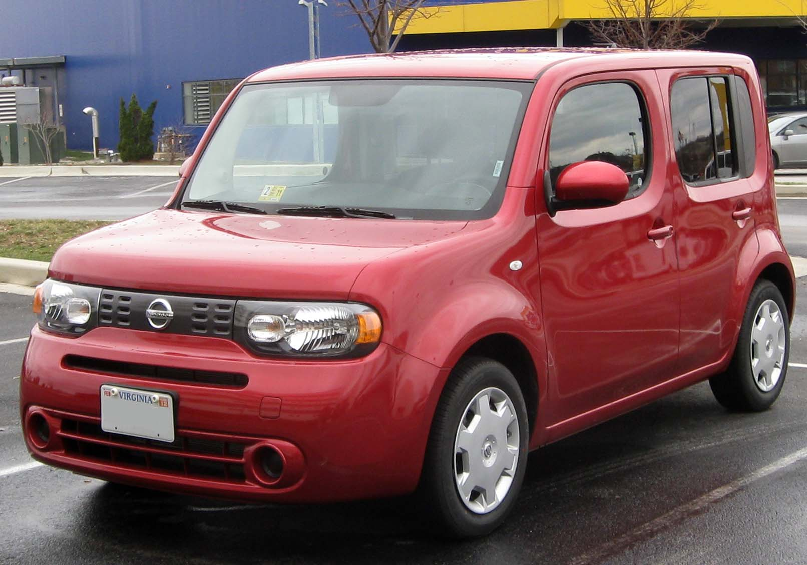 2010 Nissan Cube photographed in College Park, Maryland, USA.